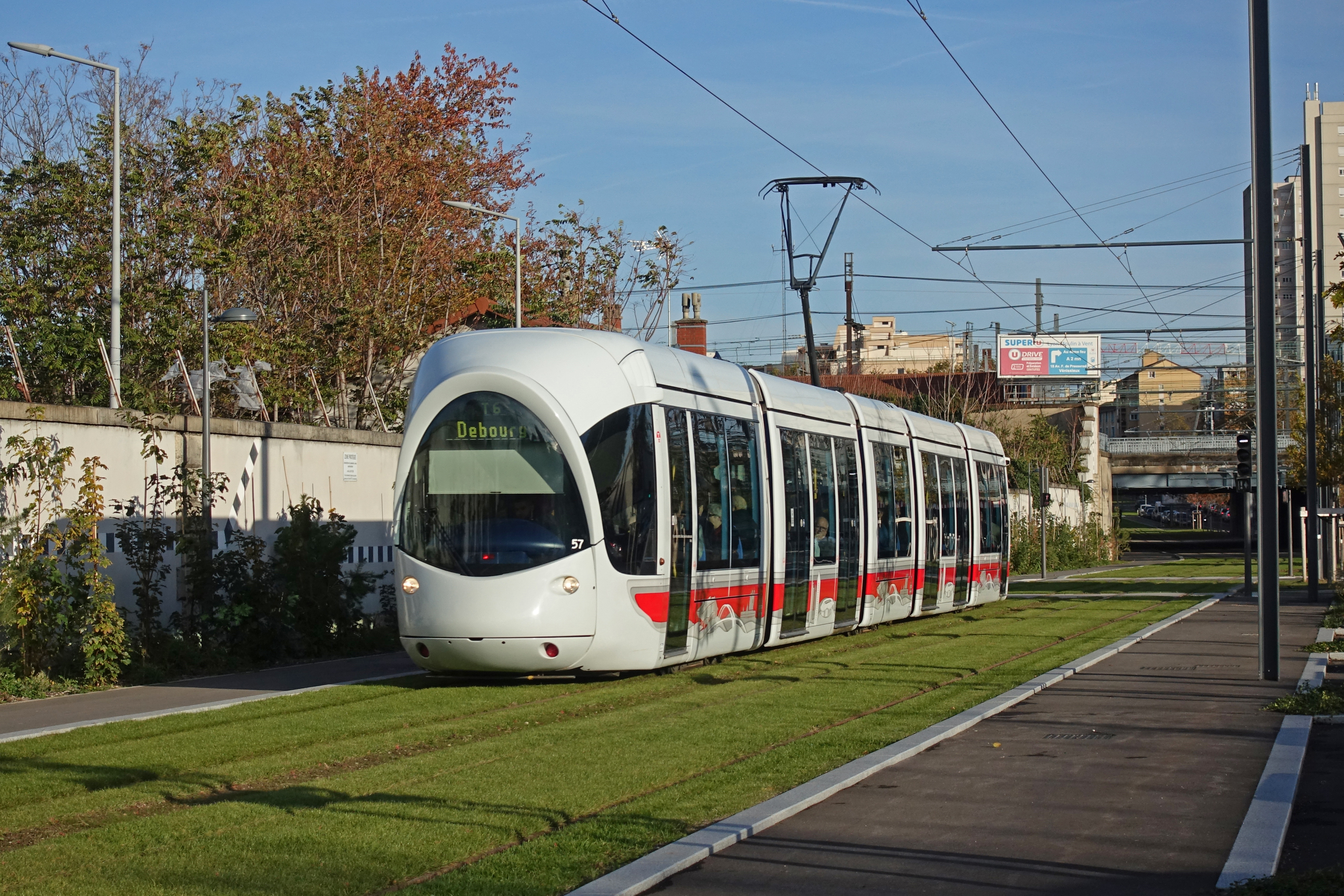 Alstom Citadis 302 on Lyon Tramway line T6 between "Challemel-Lacour - Artillerie" and "Moulin à Vent" stops.